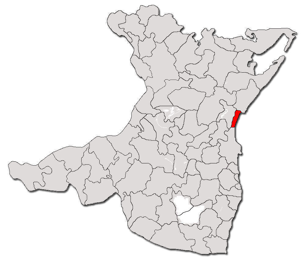 Countour map of Navodari town